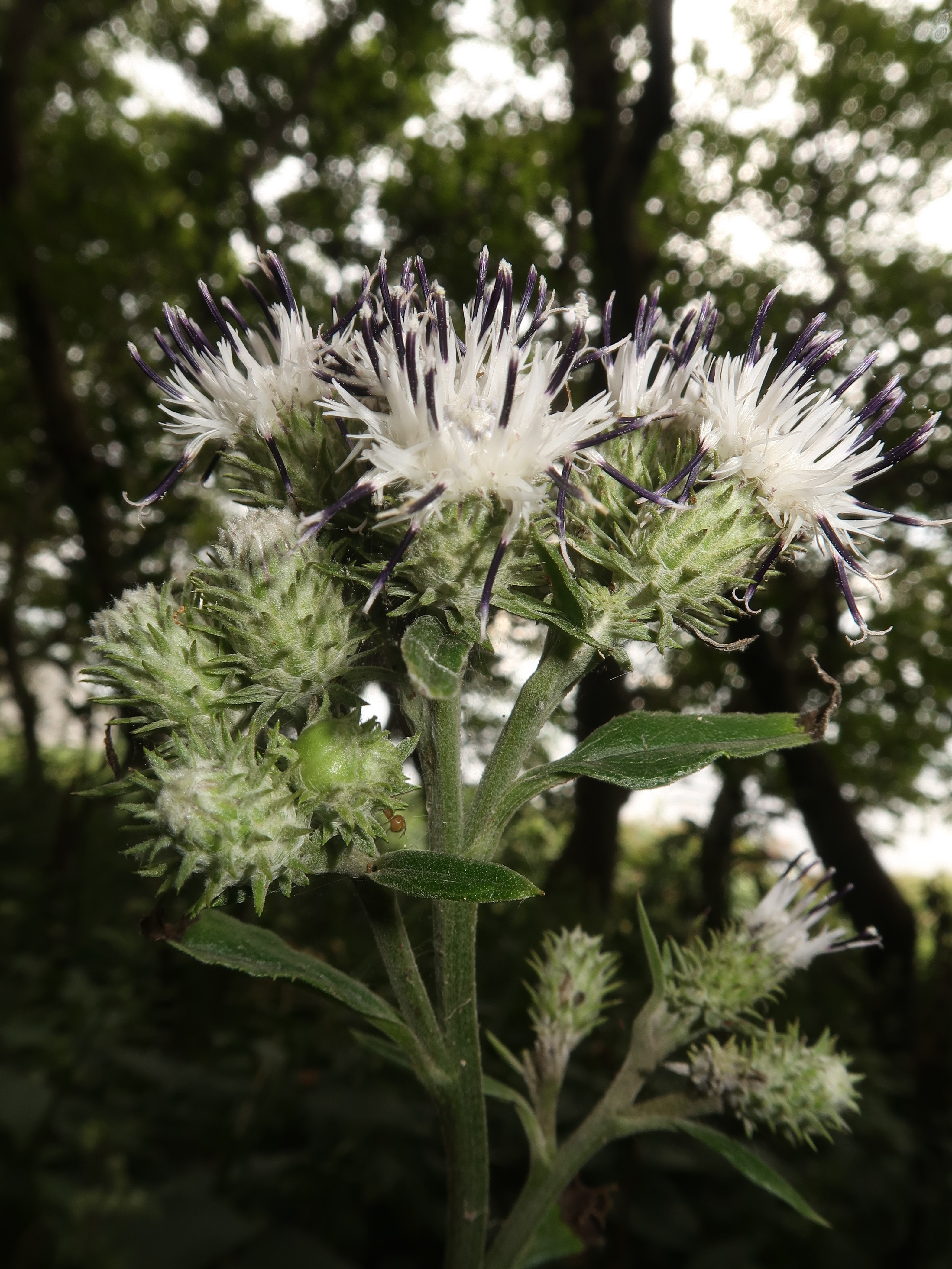 Saussurea andoana, Fukaura town, Aomori pref., Japan